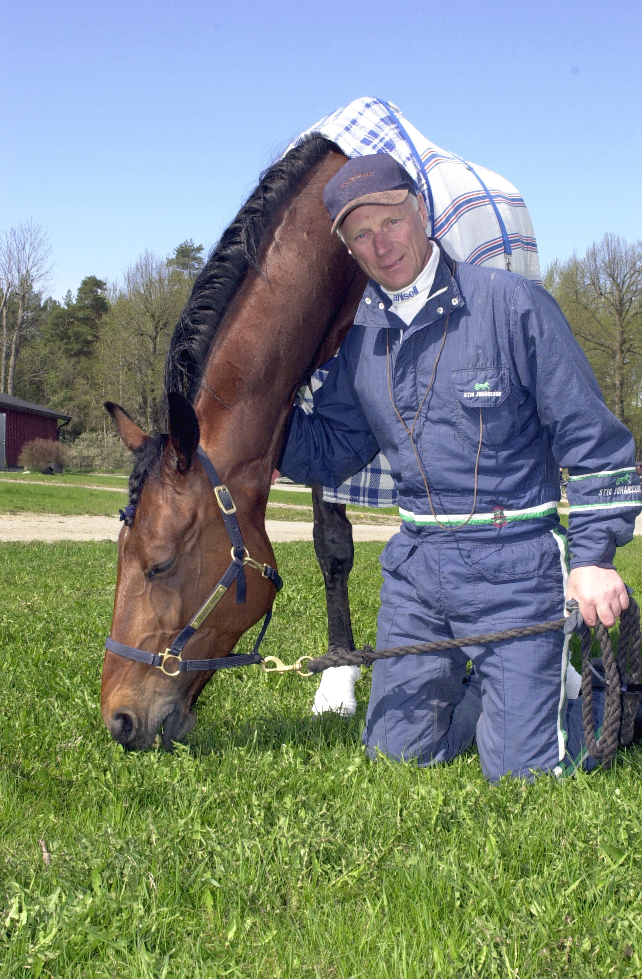 The trotter Victory Tilly with driver and trainer Stig H. Johansson.